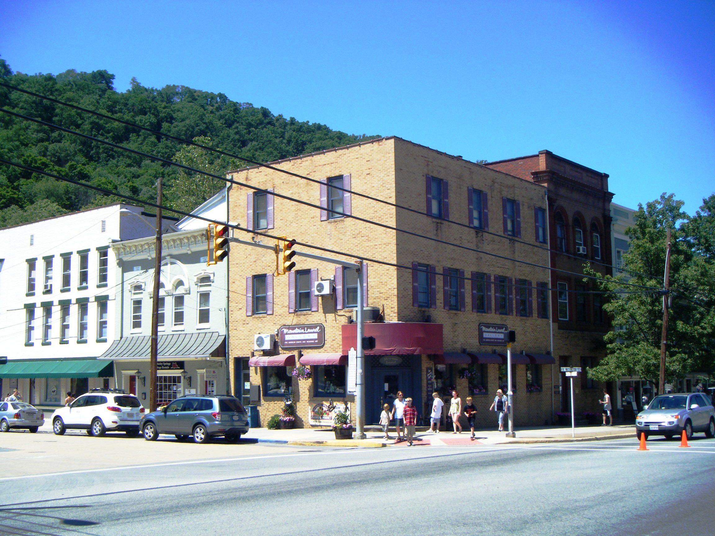 Shops at the corner of Washington and Fairfax Streets, Bath (Berkeley Springs), West Virginia.